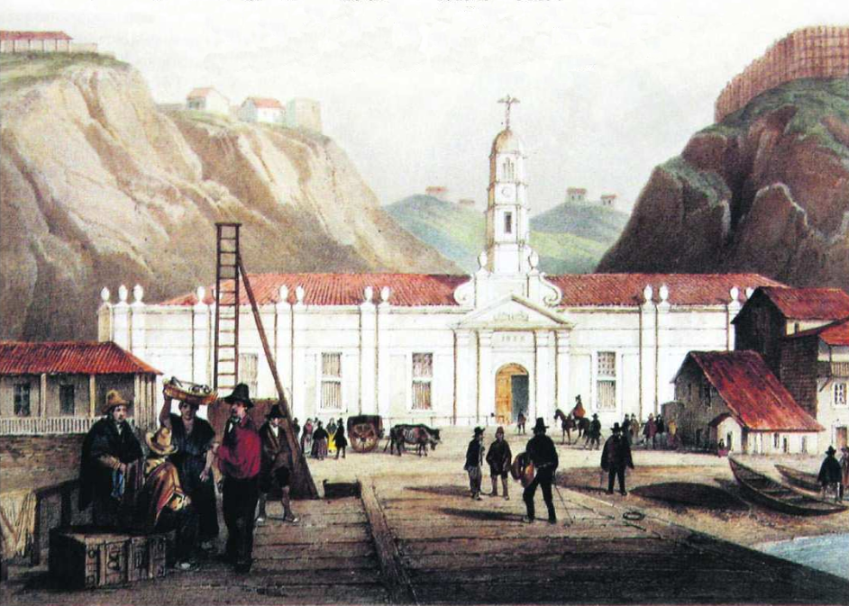 Aduana de Valparaíso. Grabado de Louis Philippe Alphonse Bichebois, Viaje alrededor del mundo durante 1836 a 1837. Museo Histórico Nacional de Chile